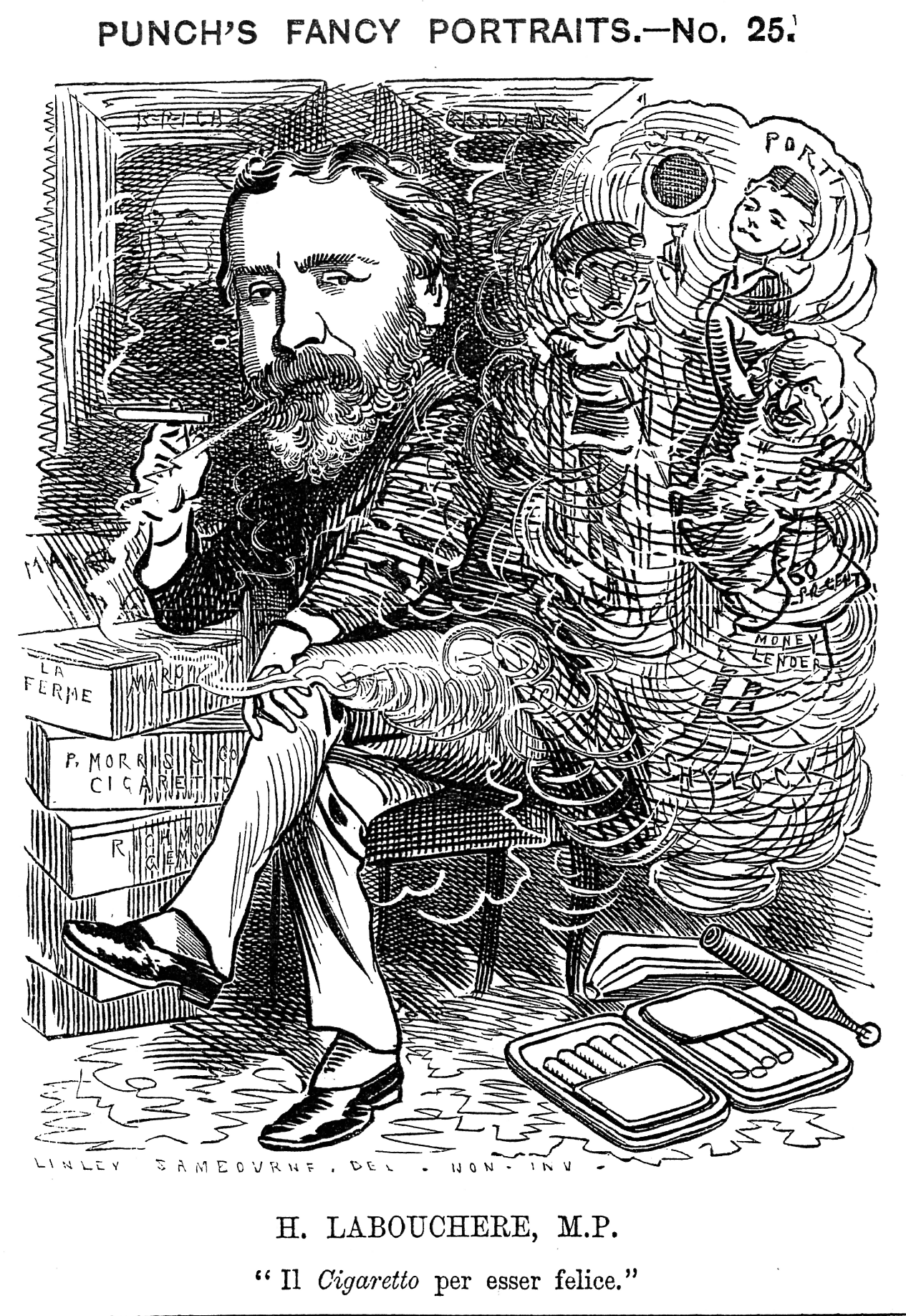 Cartoon of Henry Labouchere, in Punch